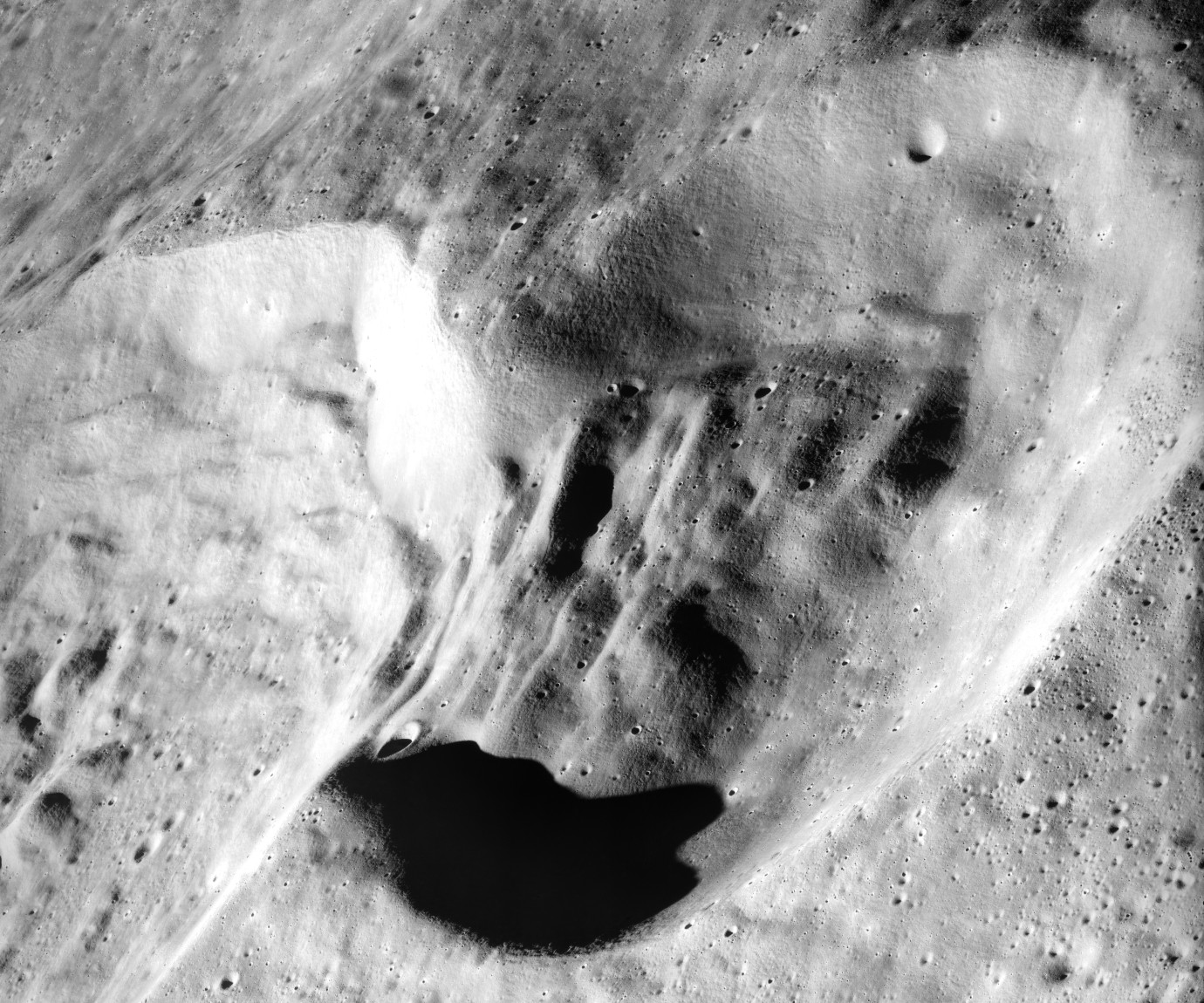 The craters Shirakatsi (left) and Dobrovol'skiy (right), on the far side of the moon. This is the second photo of Figure 148 of Apollo Over the Moon (NASA SP-362, 1978), which has the following caption (edited for clarity because the two craters were not formally named at the time of publication): This pair of overlapping medium-sized craters illustrates some of the criteria used to determine relative ages. Material ejected from the larger polygonal crater (Shirakatsi) on the left partially fills the smaller crater on the right (Dobrovol'skiy); thus, the crater on the left is younger. Furthermore, the wall of the large crater is complete, whereas the west wall of the smaller crater is absent, obviously having been destroyed by the larger crater. Even if the two craters did not overlap, the sharp rim, terraced walls, and prominent central peak of the larger crater clearly identify it as the younger of the two. The frames used in the stereogram (p148a) were selected to show exaggerated relief, a technique very helpful to photointerpreters in determining shapes and relative elevations of surface features. The two craters are located in the rugged terrain of the far-side highlands approximately 250 km north of the prominent crater Tsiolkovsky. The photograph below (hrp148b) is an oblique view of the same pair of craters. It is included, not because it is a more dramatic view, but because it shows from another perspective that one crater clearly is superposed on the other. -M.C.M.